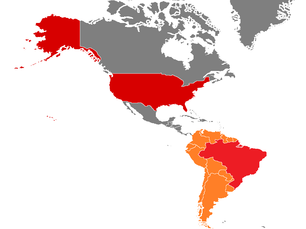 Map of the influence of Brazil on the Latin American countries, itself relay of the American superpower